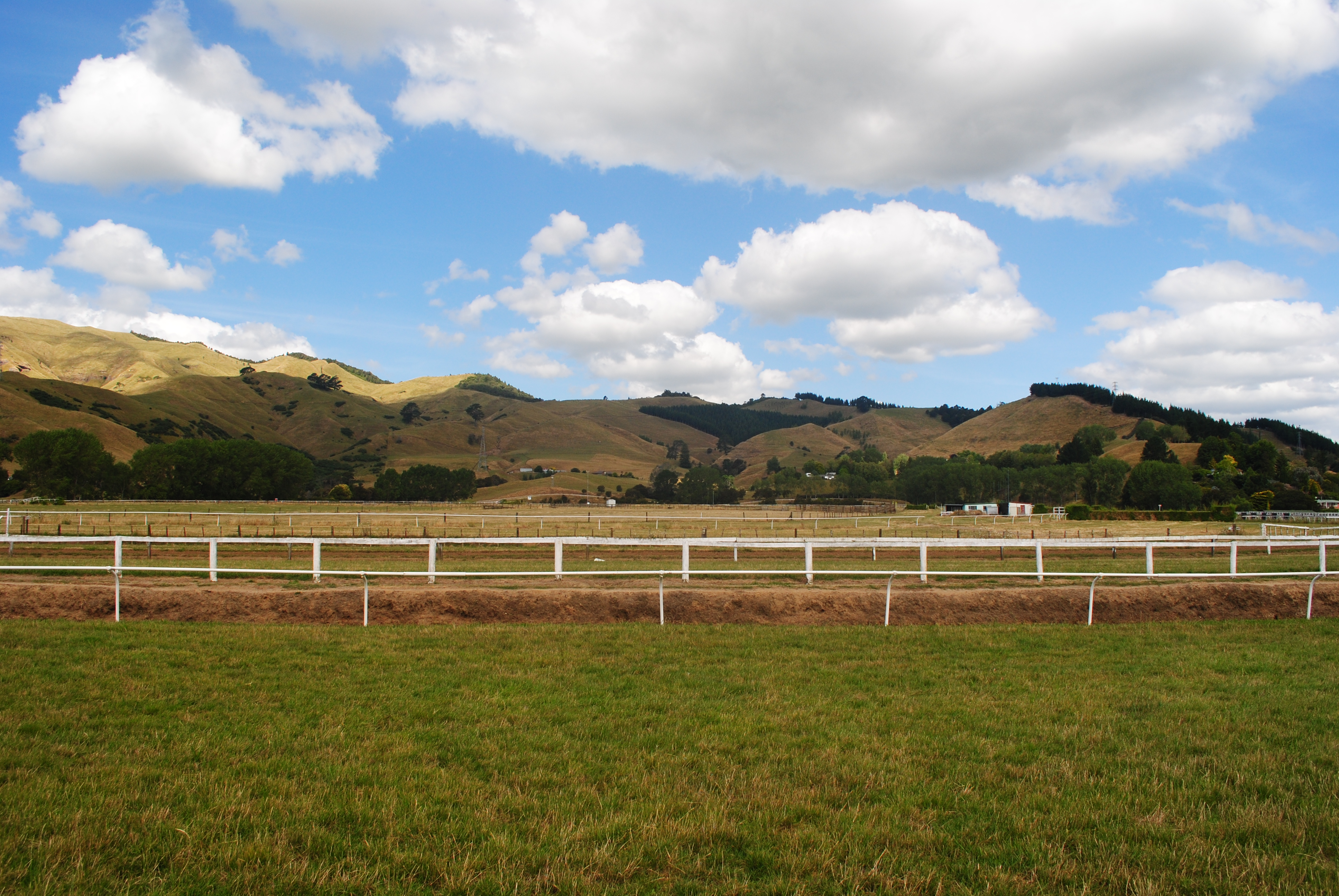 Rural area outside of Paeroa, New Zealand